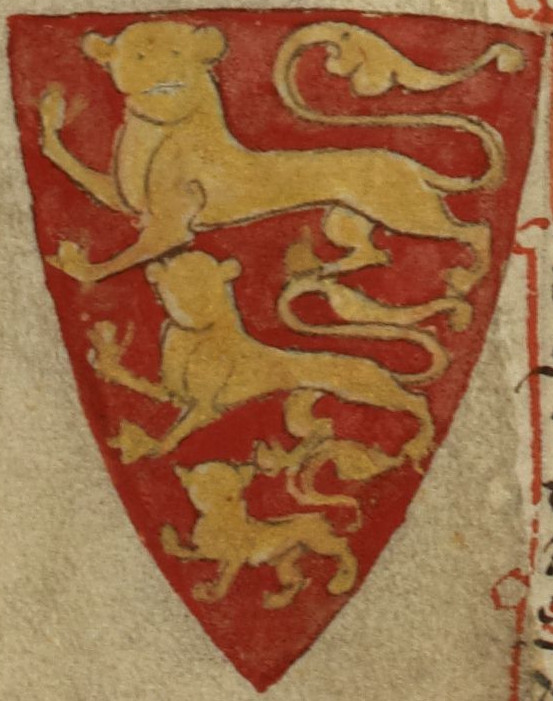 An excerpt from folio 100r of Royal MS 14 C VII (Historia Anglorum). The coat of arms is that of Henry III, King of England.